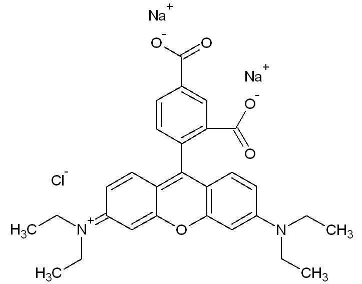 Rhodamine WT